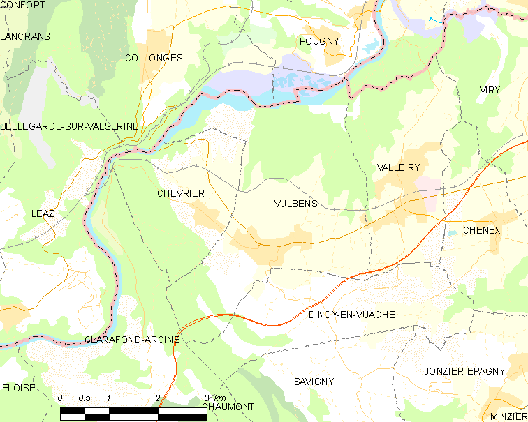 Map of French municipality Vulbens